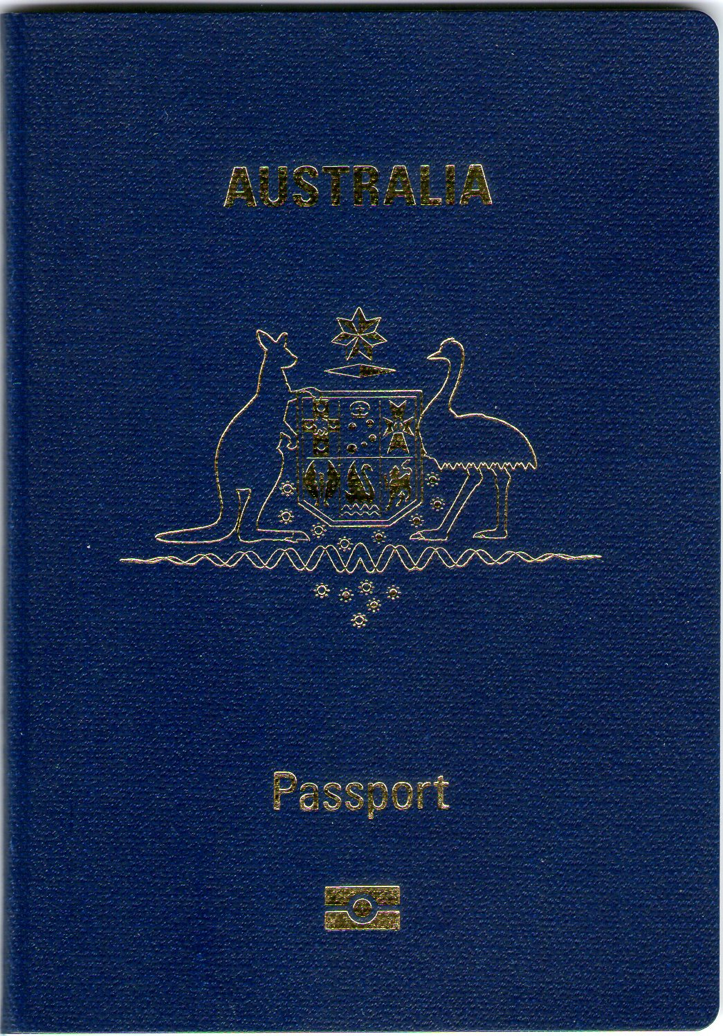 Scan Copy of Current Australian P - Series Passport